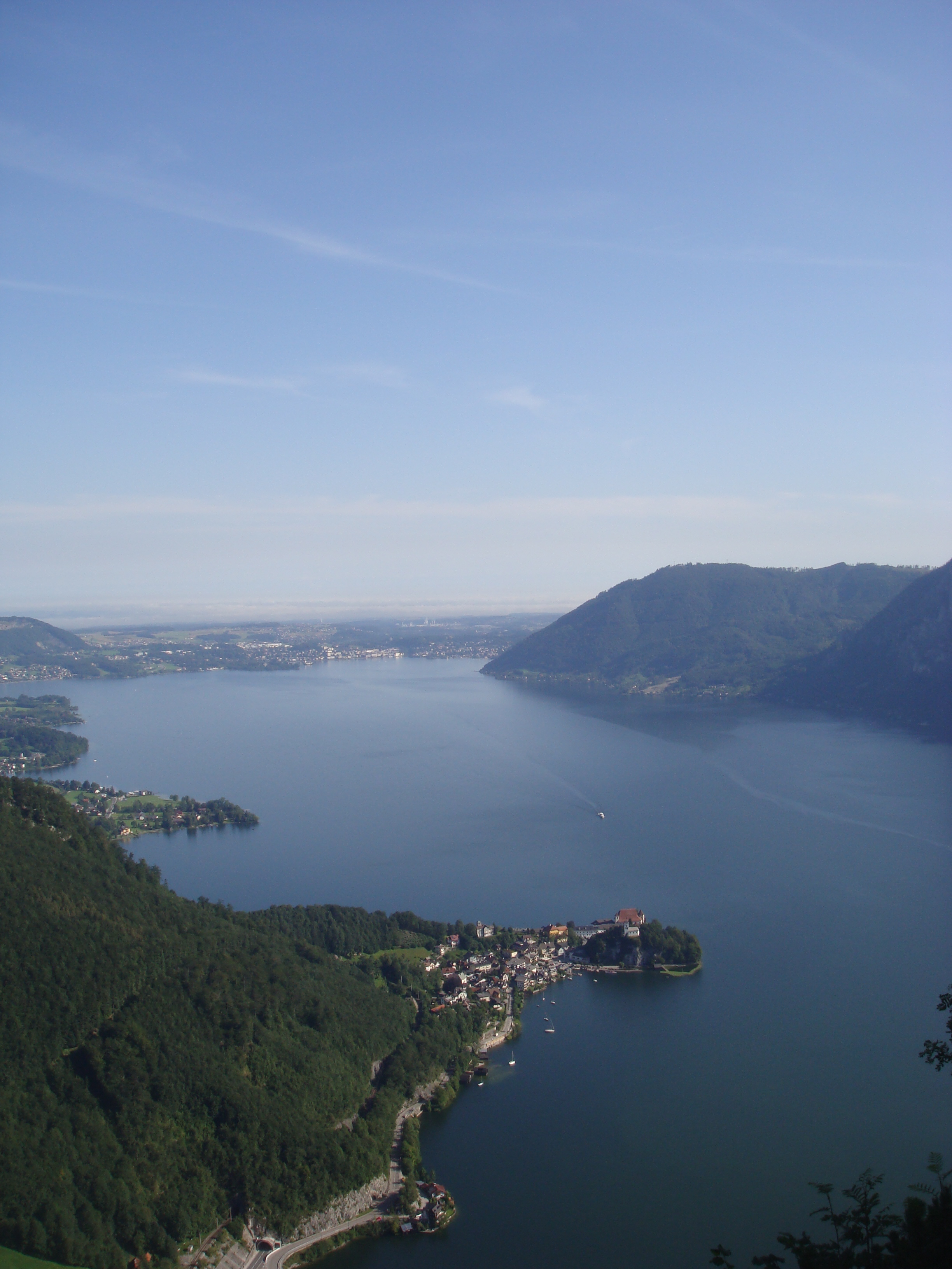 The Traunsee with view against north, photo taken from the top of the Sonnstein